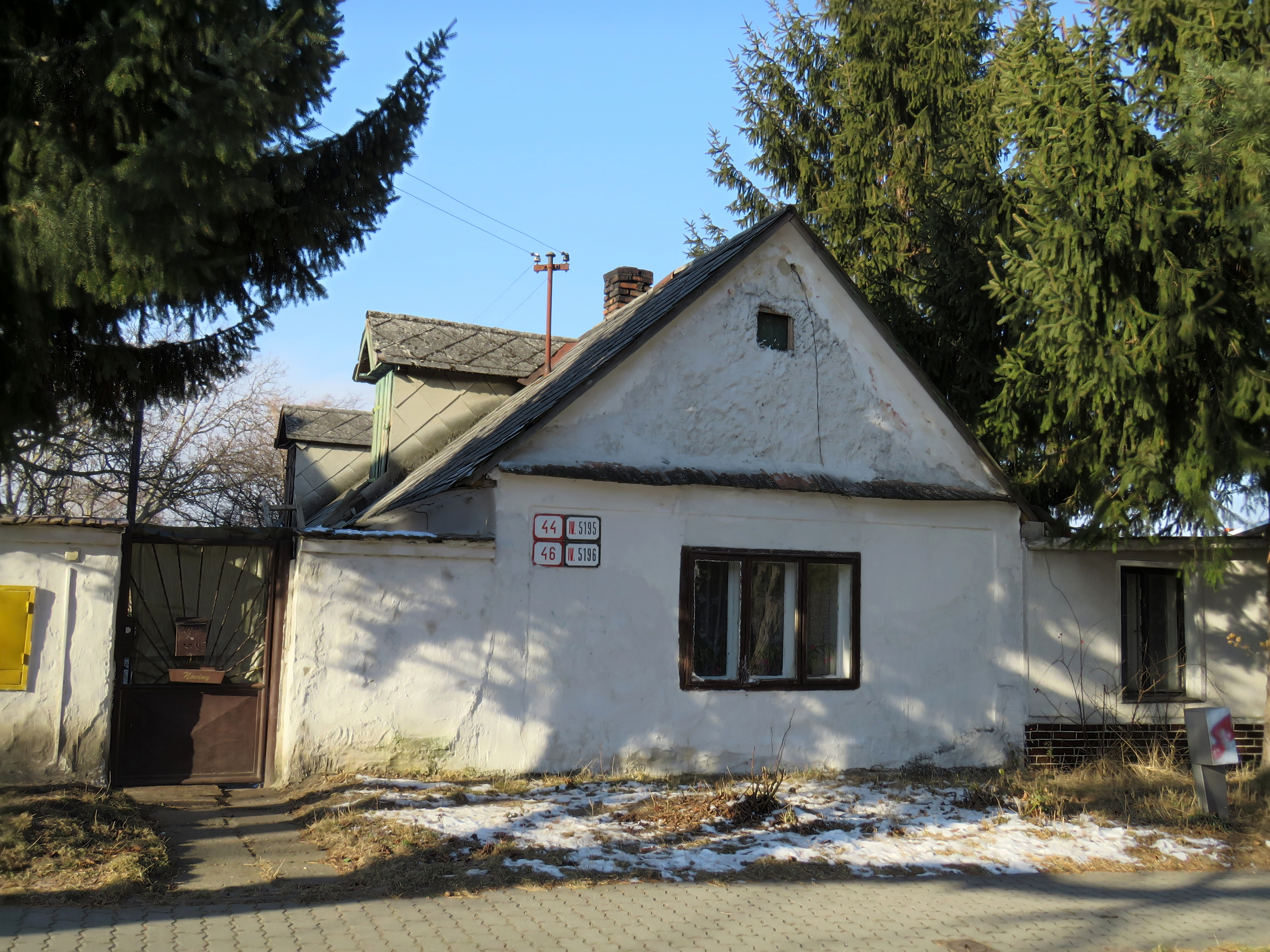 House of Slovak author Rudolf Sloboda in Bratislava-Devínska Nová Ves